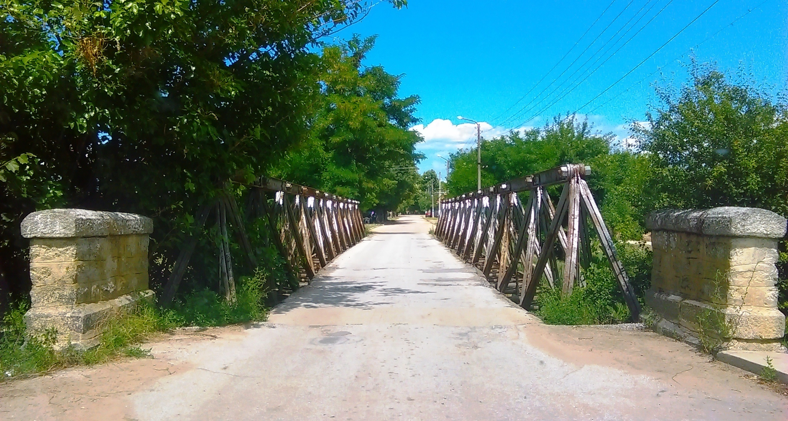 A WWII bridge in Chernichevo, Plovdiv province, Bulgaria